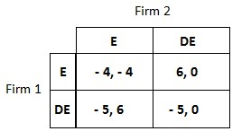 Normal form depiction of a market entry game between two firms after the game is altered through use of a sunk cost.